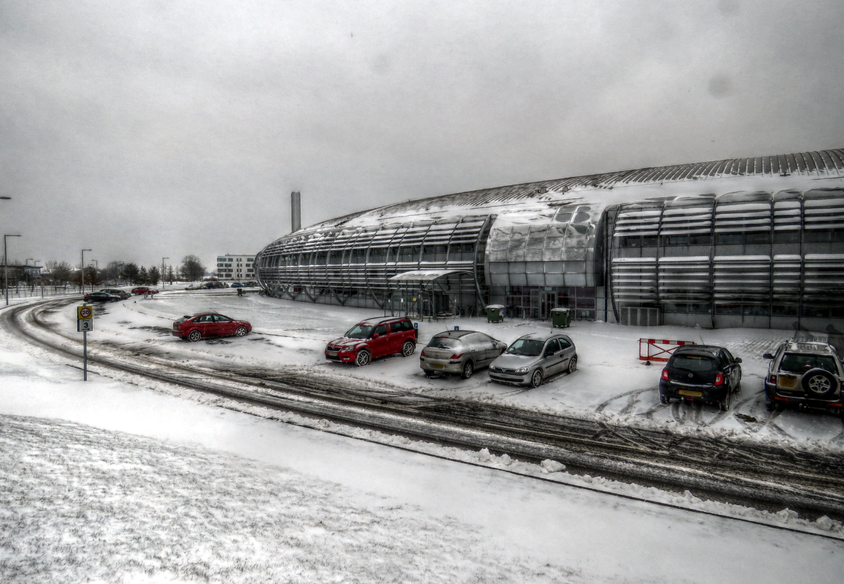 Diamond Light Source during the "beast from the east" snow storms. Numberplates have been blurred for privacy.